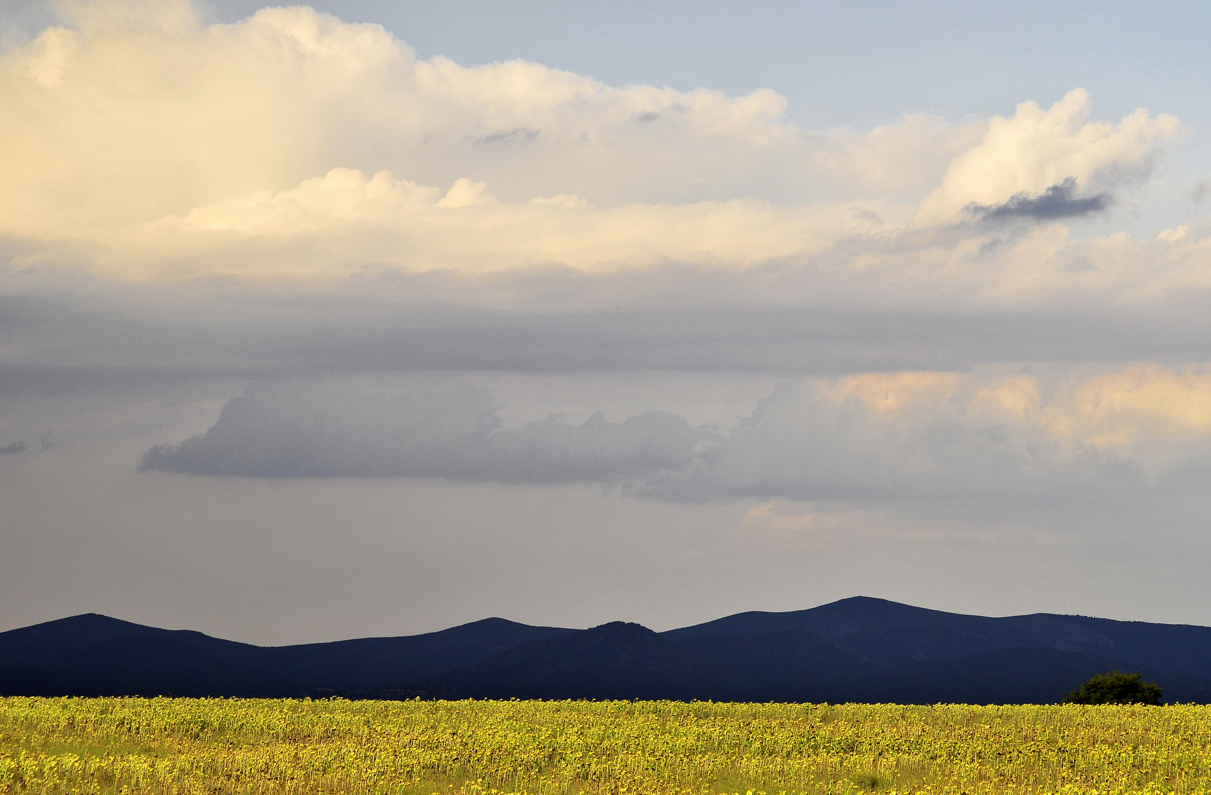 The dusk at Molina de Aragon highland: clouds and sunflower field, Guadalajara, Castile-La Mancha, Spain